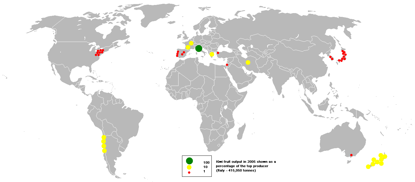 This bubble map shows the global distribution of kiwifruit output in 2005 as a percentage of the top producer (Italy - 415,050 tonnes). This map is consistent with incomplete set of data too as long as the top producer is known. It resolves the accessibility issues faced by colour-coded maps that may not be properly rendered in old computer screens.